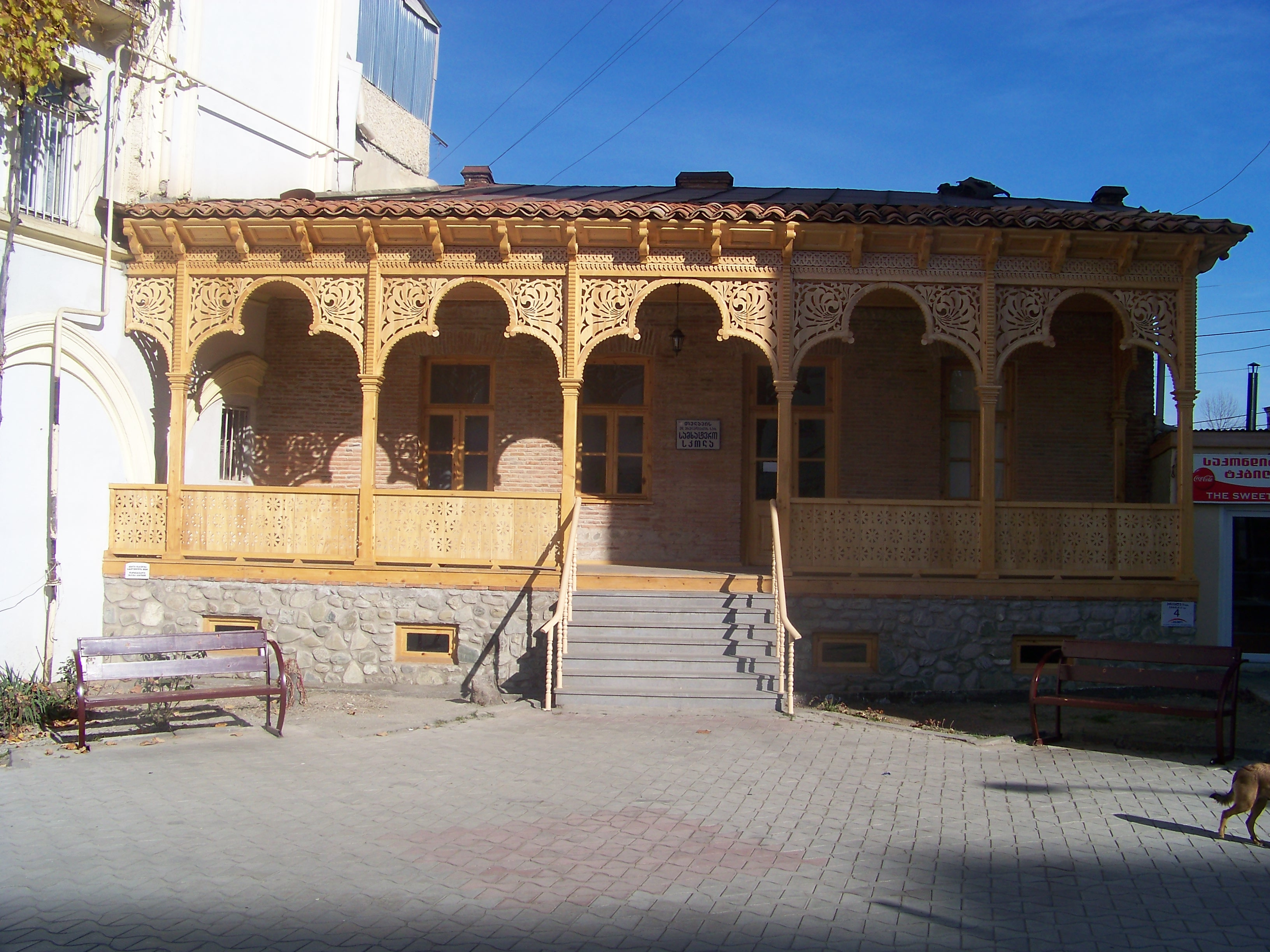 Telavi Art School